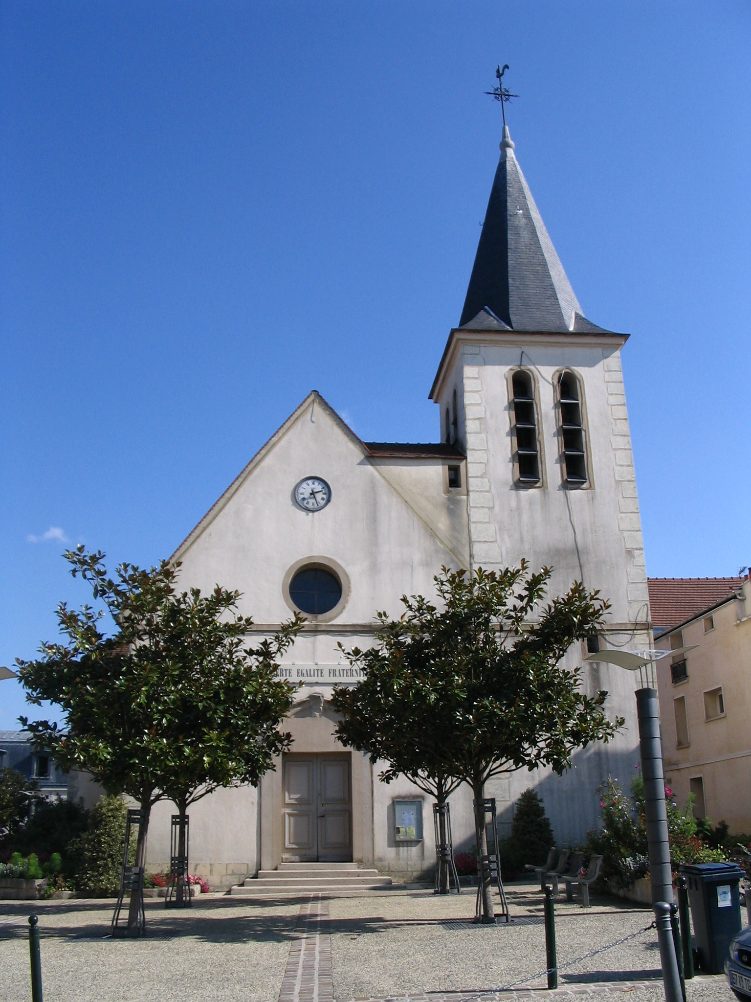 The church of Champs-sur-Marne, Seine-et-Marne, France.